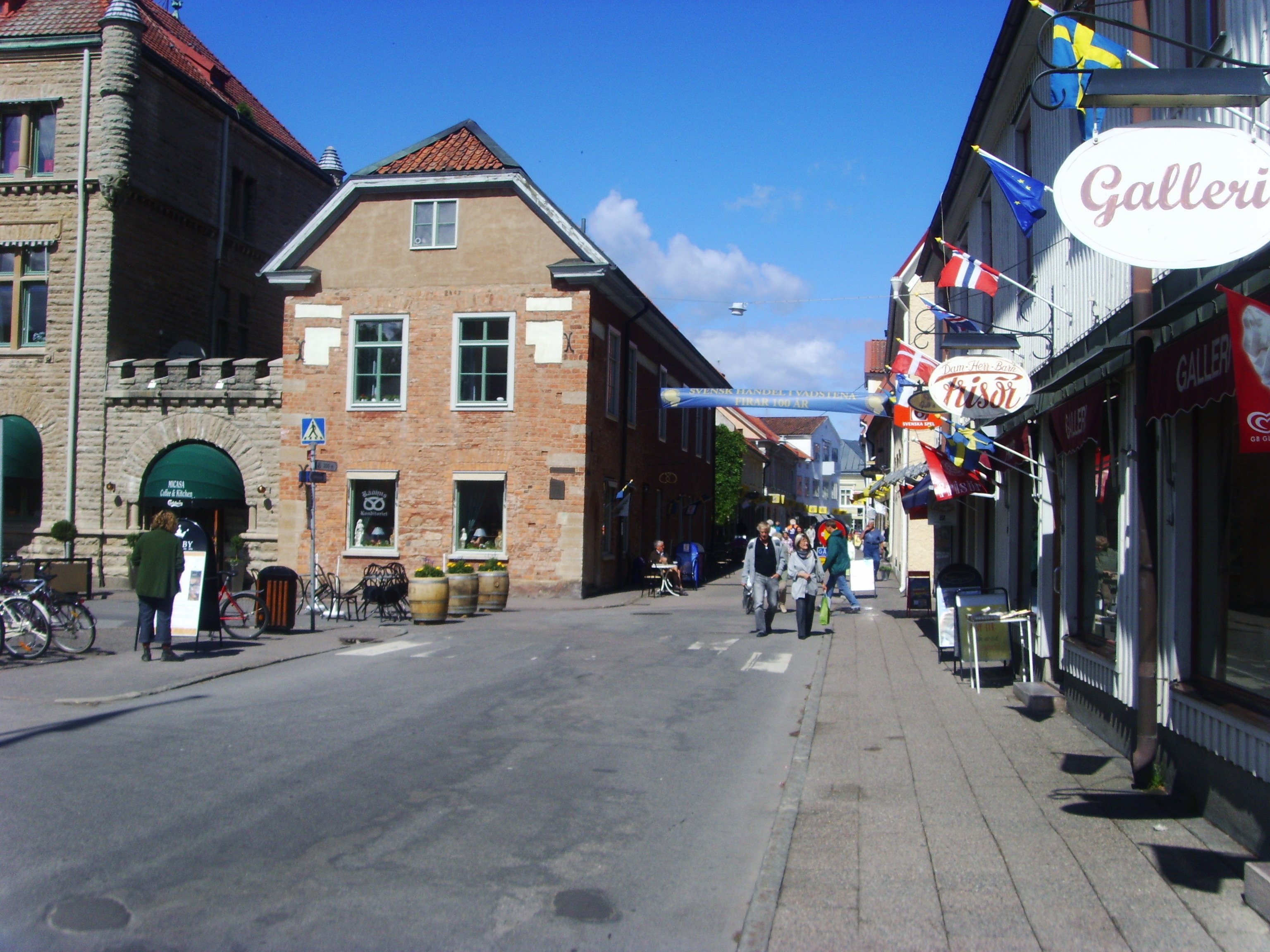 Vadstena